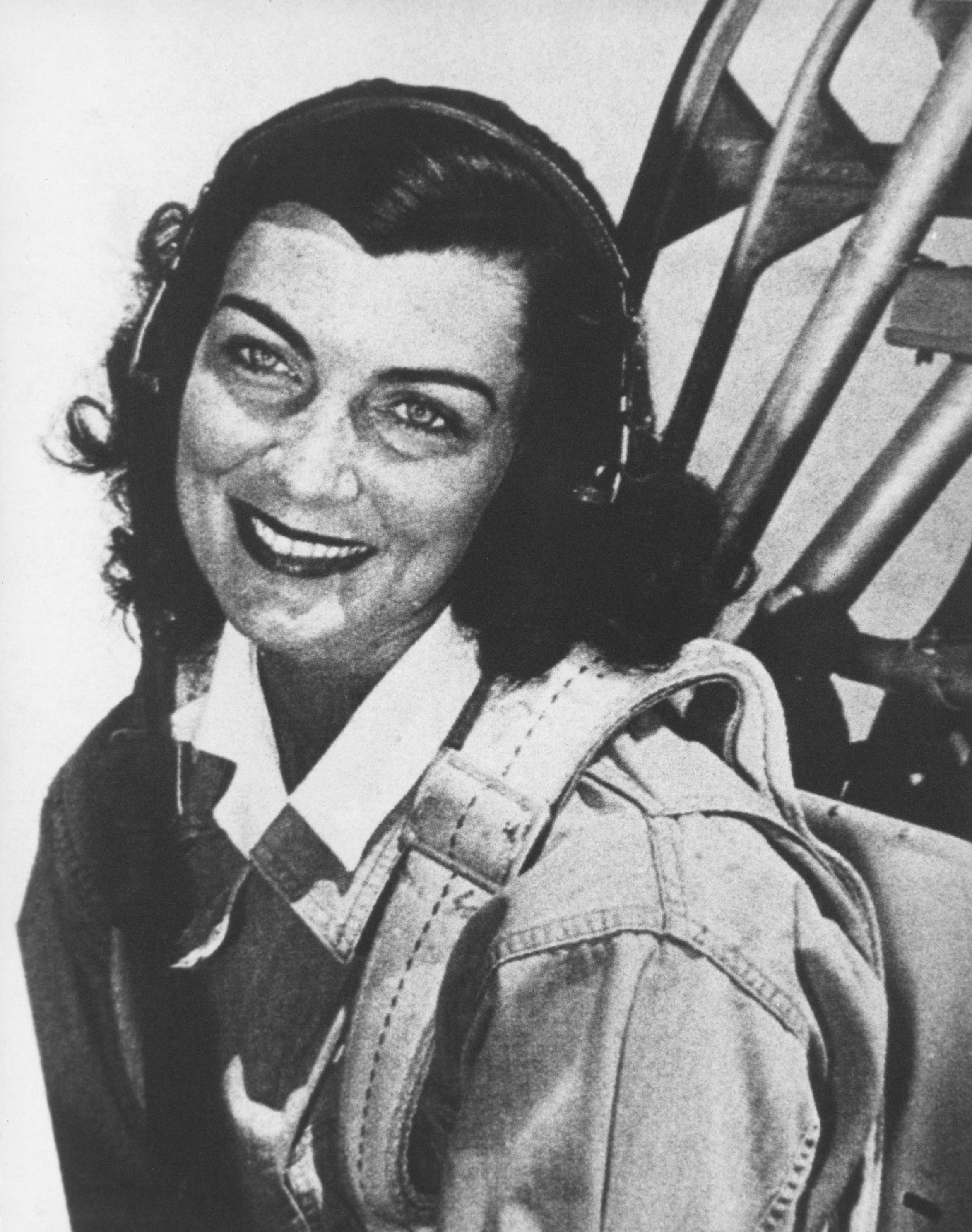 WASP Eolyne Nichols, Class of 43-4, in a BT-13 trainer.